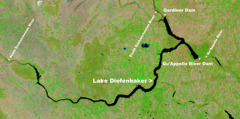 Portion of NASA satellite image showing Lake Diefenbaker in Saskatchewan Canada. (Captions have been added by Kayoty)